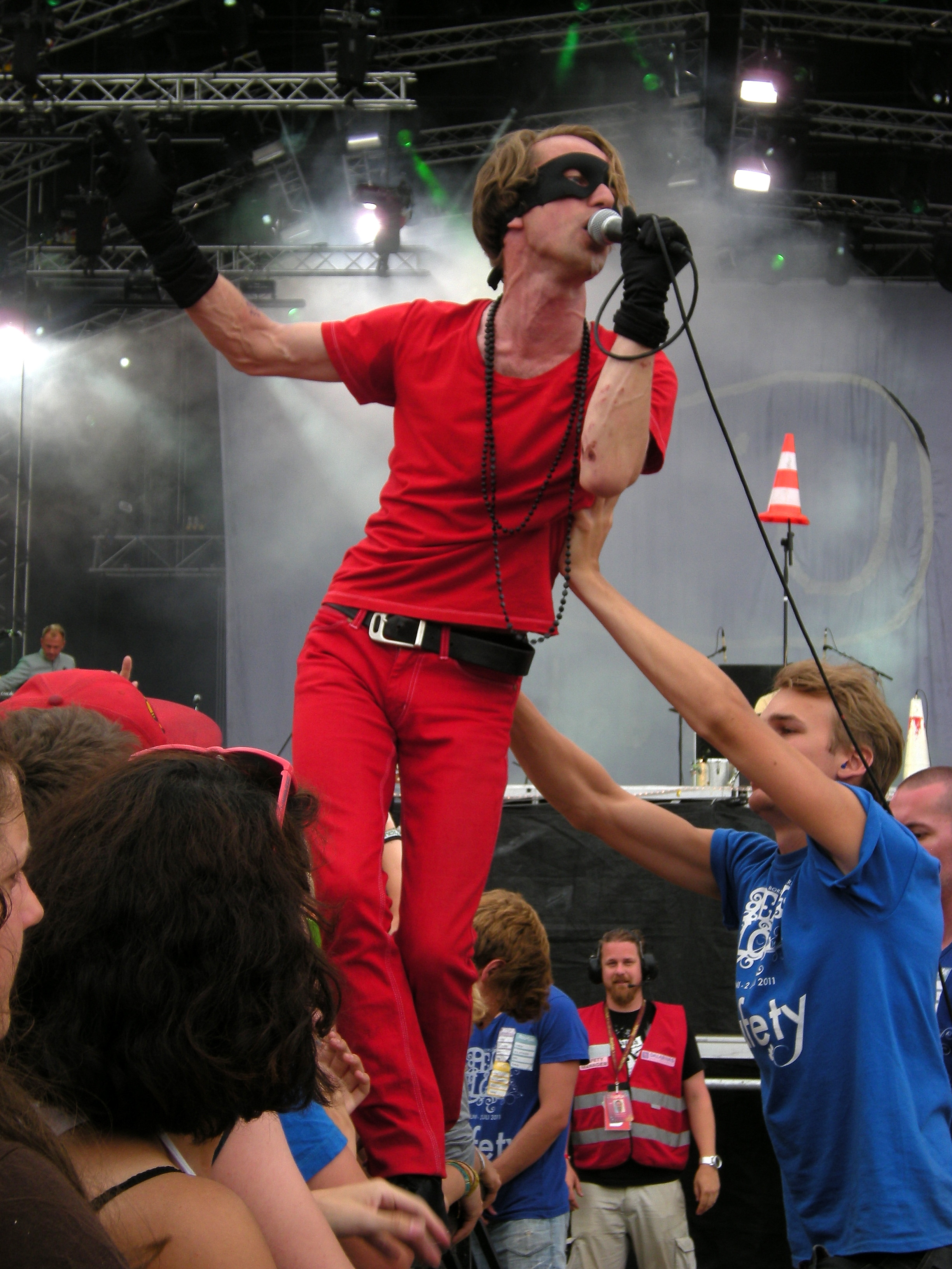 bob hund performing at Peace and Love festival in Borlänge 2011